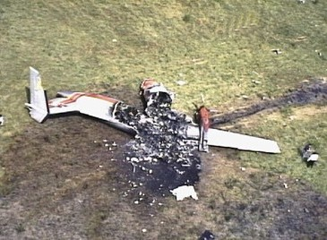 Aerial photo of Atlantic SE Flight 529 crash site. Photos provided by NTSB